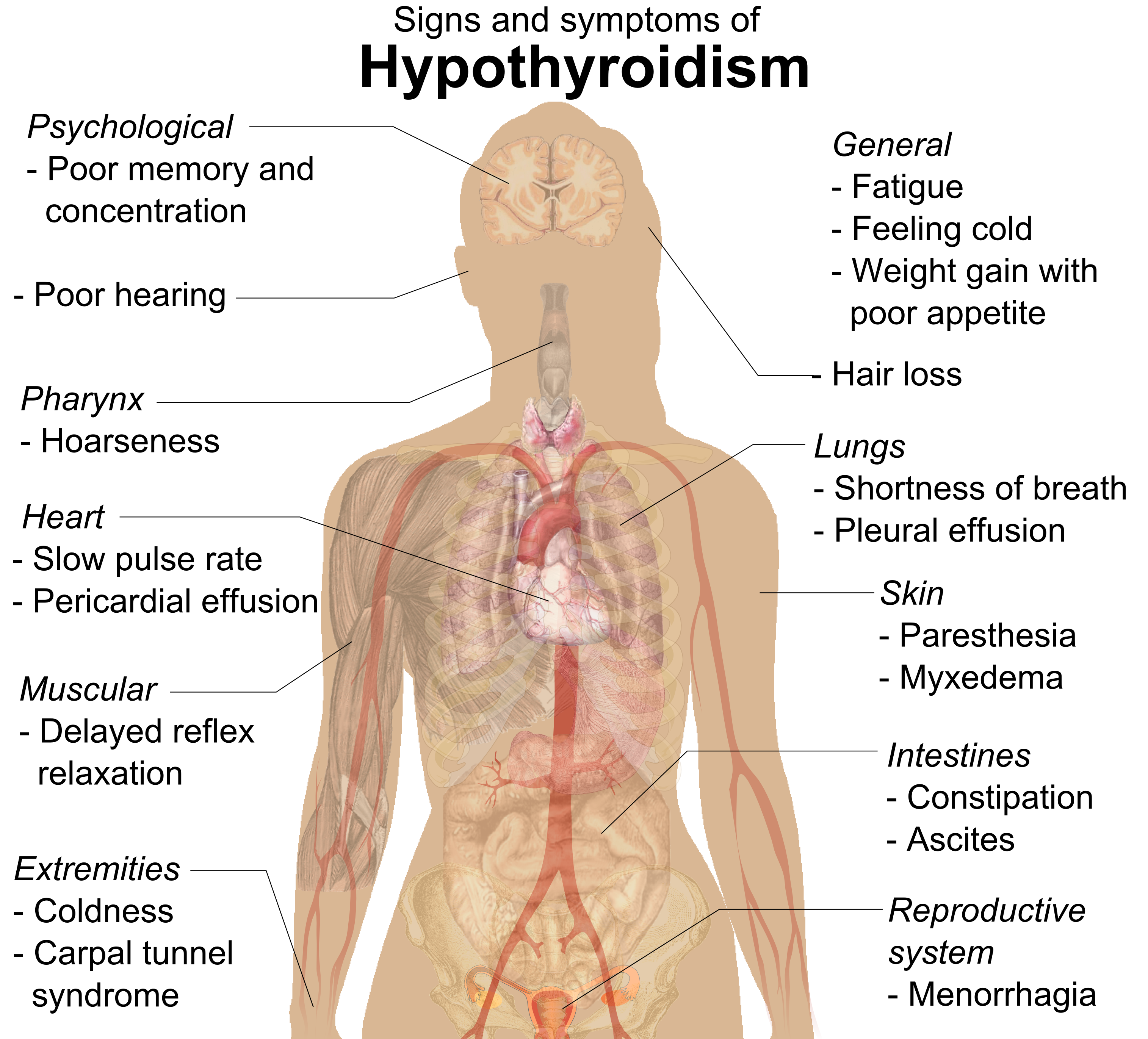 Signs and symptoms of hypothyroidism. Reference: Longo, DL; Fauci, AS; Kasper, DL; Hauser, SL; Jameson, JL; Loscalzo, J (2011) "341: disorders of the thyroid gland" in Harrison's principles of internal medicine. (18th ed.), Category:New York: McGraw-Hill ISBN: 007174889X.